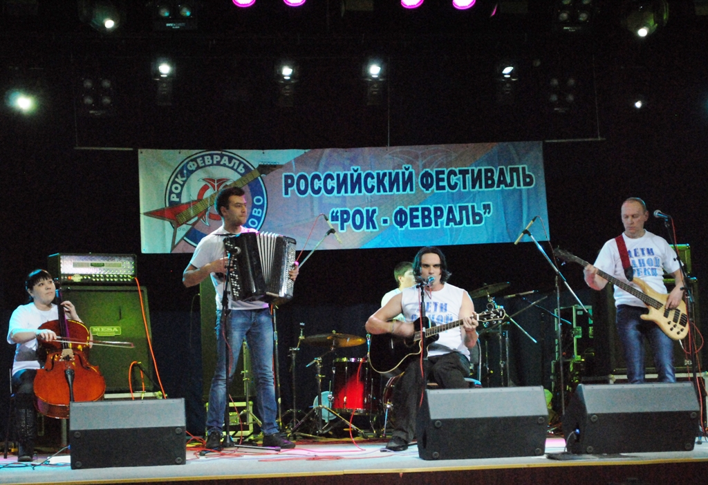 Музыканты X Всероссийского фестиваля «Рок-Февраль — 2014» группа «Дети одной реки» г. Юрьевец